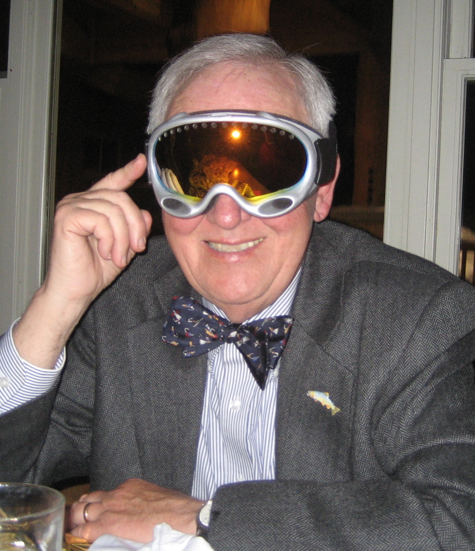 Jan Harold Brunvand, American folklorist, best known for his work with urban legends, at his 75th birthday party. "I am wearing a fly fishing bow tie and a fish pin on my lapel, and I am trying on ski goggles that were a gift from a friend that evening."